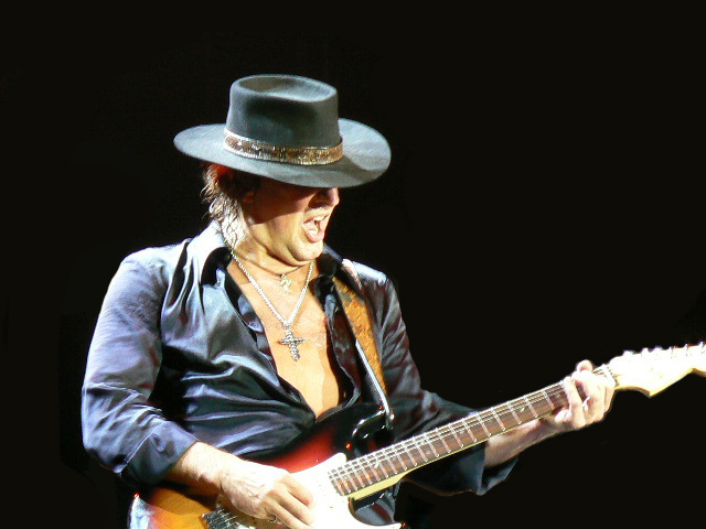 Richie Sambora performing live with Bon Jovi at the O2 Arena in London, June 24th, 2007.